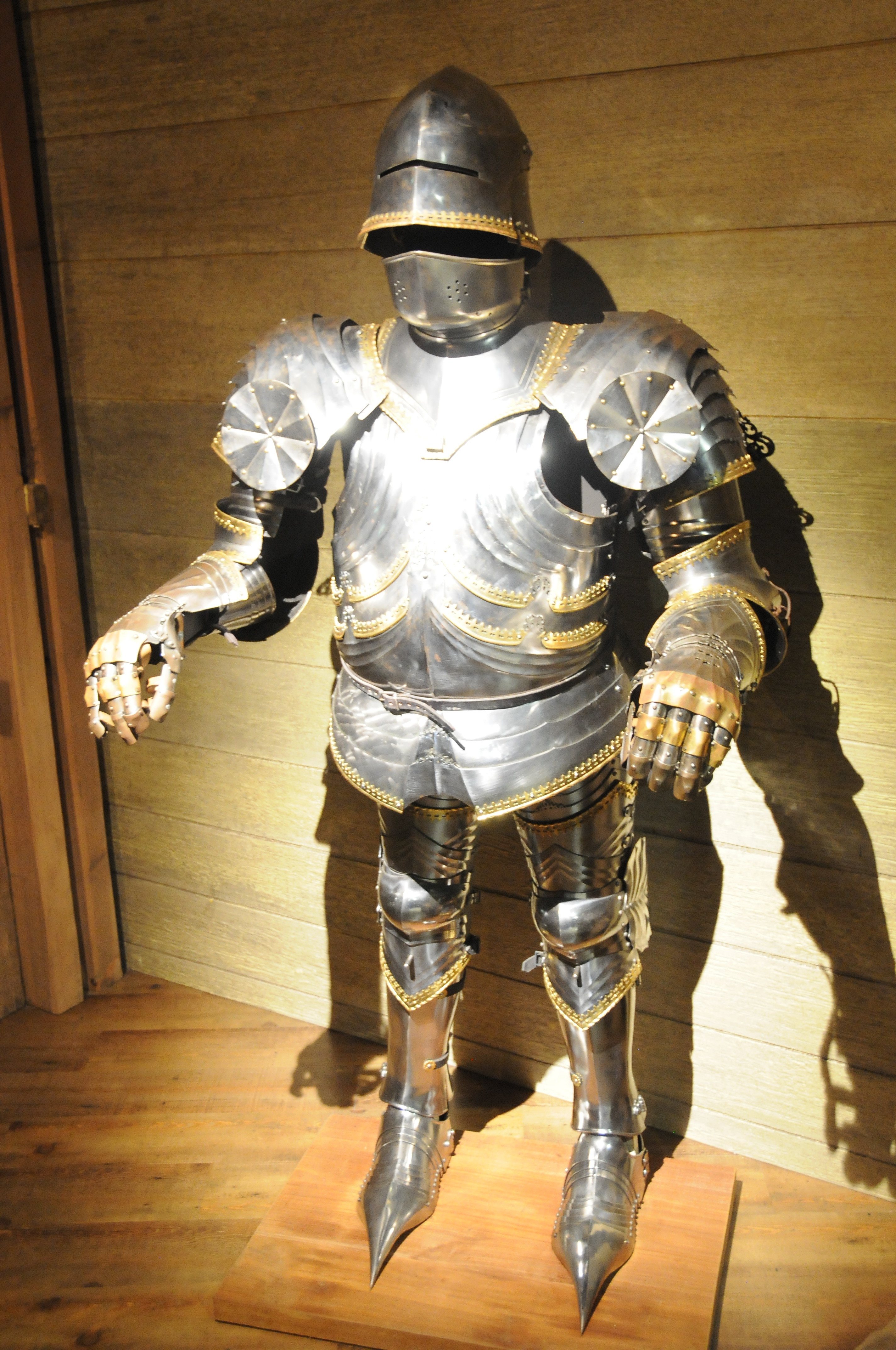 World of Discoveries in Porto Portugal